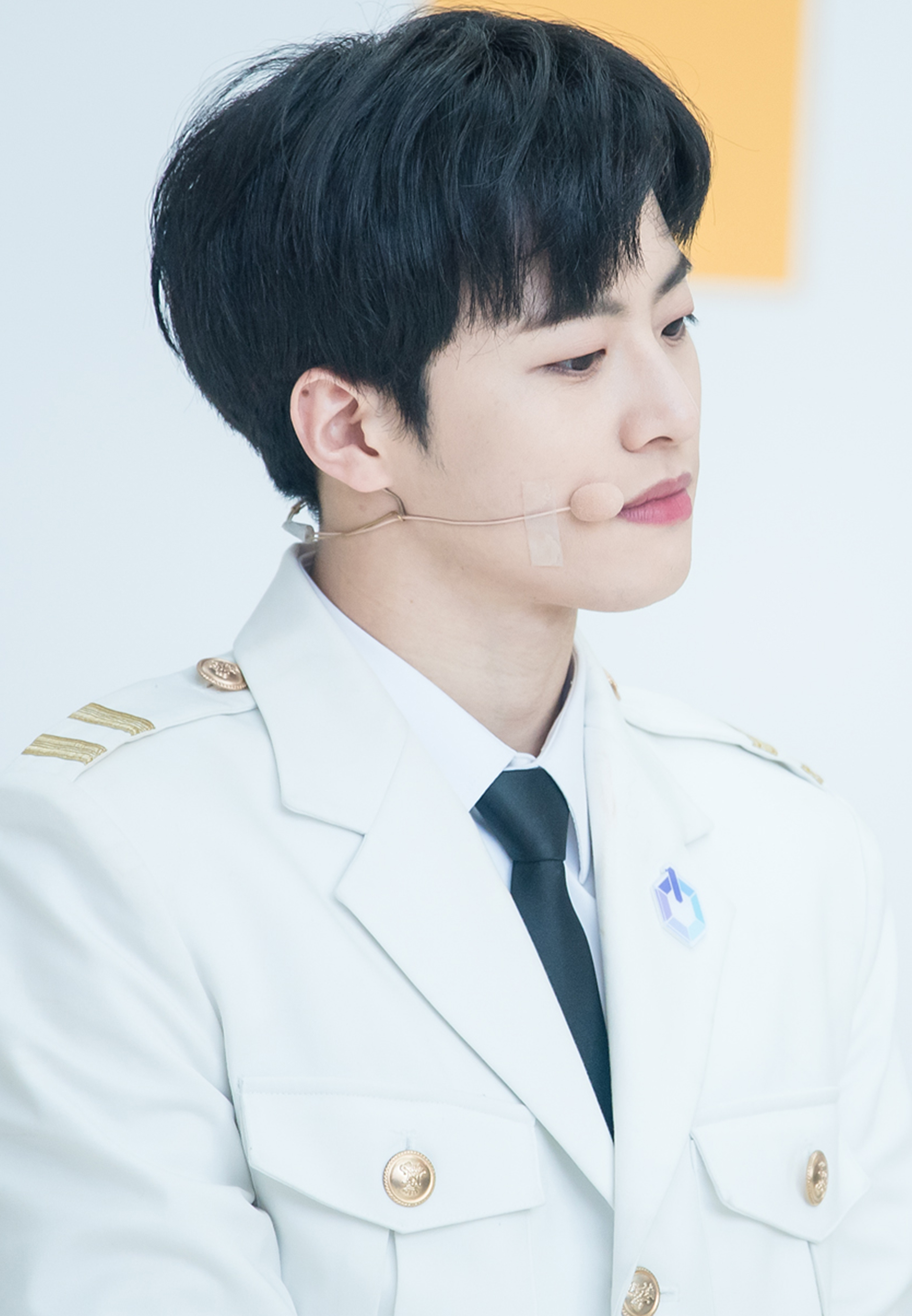 180211 더유닛 유닛B